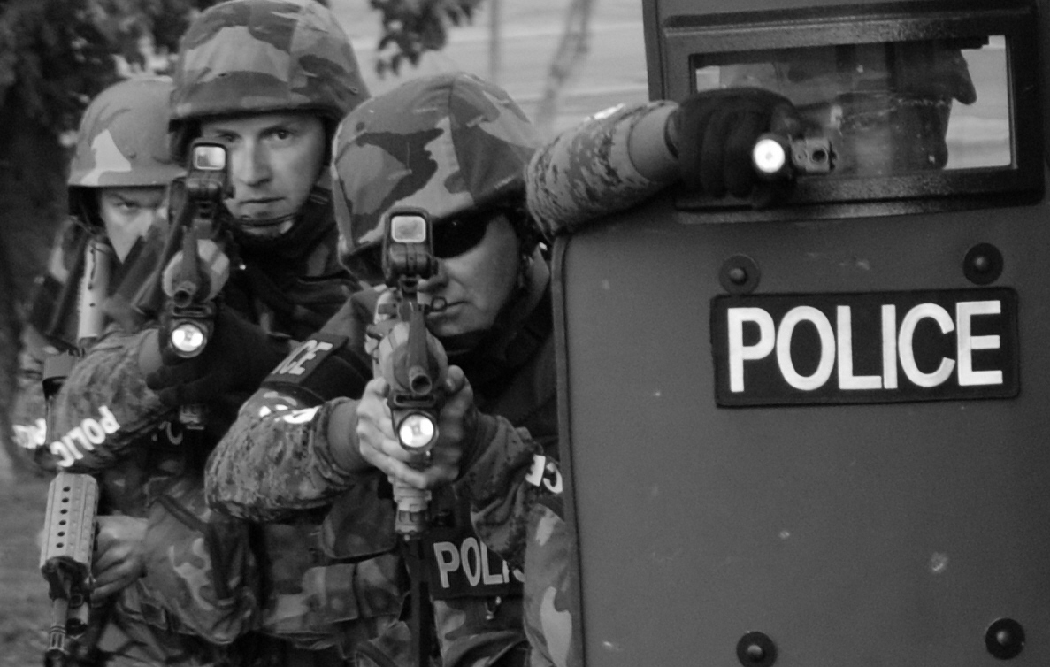 North Penn Tactical Response Team of Montgomery County, Pennsylvania, practicing Cellular Team Tactics